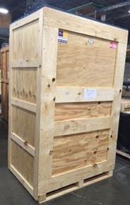 Wooden crate with cleating, 4x4 runners, and stringers